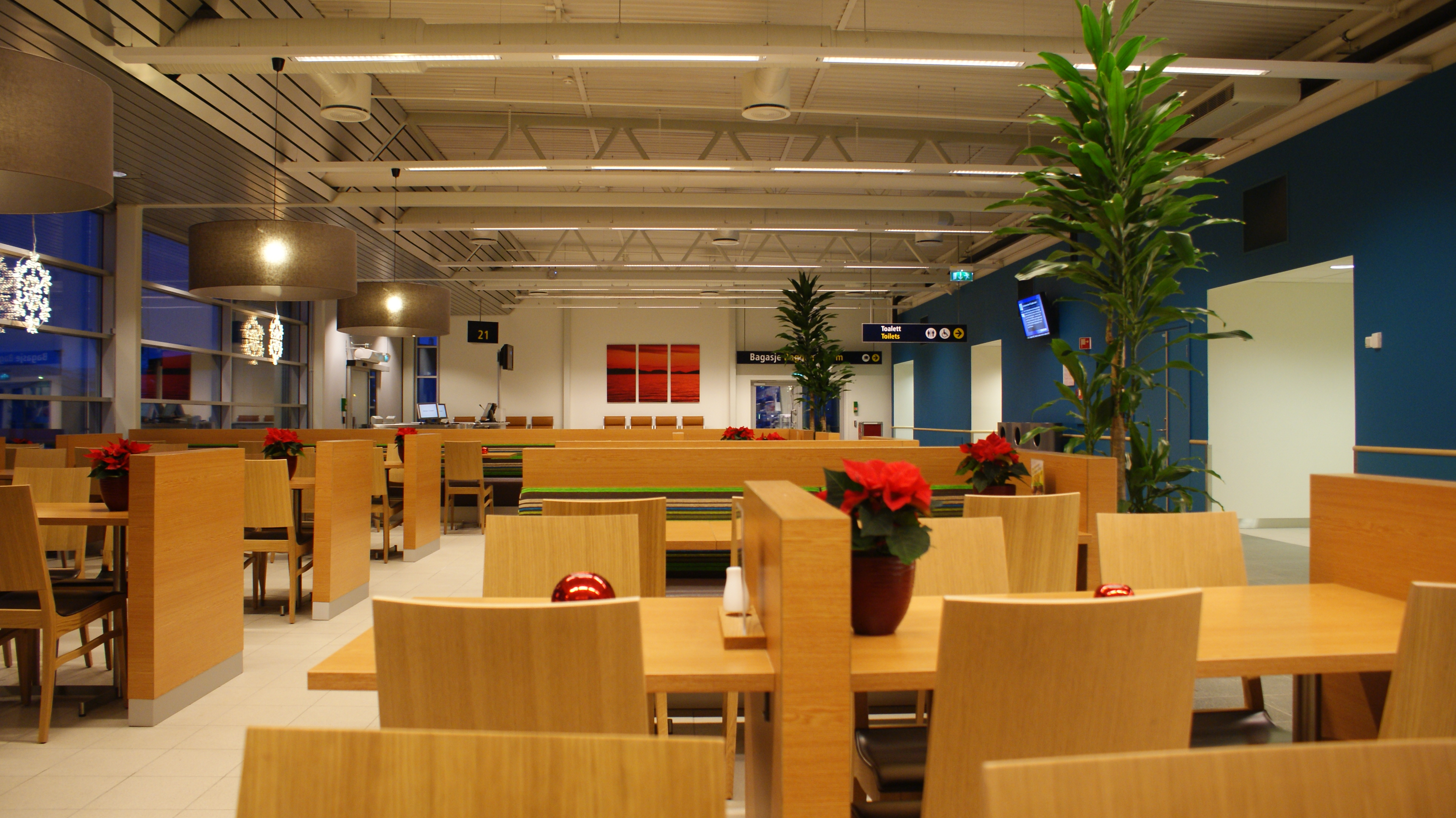 Alta Airport, Finnmark, Norway. New terminal (opened September 2009)